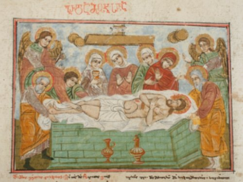 Georgian liturgical codex (gulani) from Shemokmedi